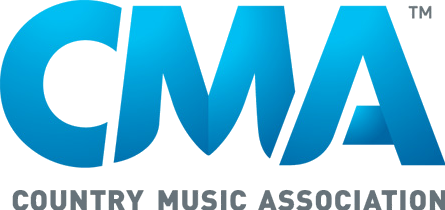 Logo for the Country Music Association.